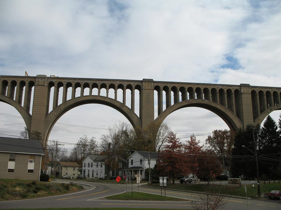 Tunkhannock Viaduct, 23 October 2009.